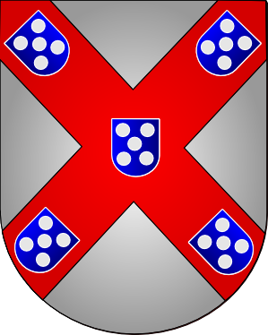 Ancient arms of the Portuguese House of Braganza